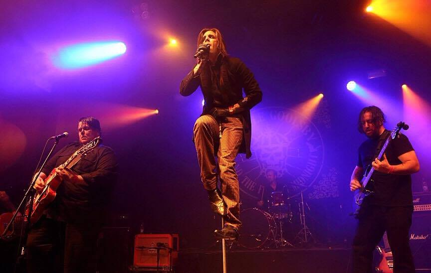 Argyle Goolsby performing at the Wave-Gotik-Treffen annual world festival in Leipzig, Germany.